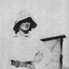 (From left) Nurse Latham, Tiddison the cook, Dr Dorothea Maude with her dog Nitsa at her feet, and Jo 'Kiltie' Whitehead, Mikra Bay, near Salonika, 1916